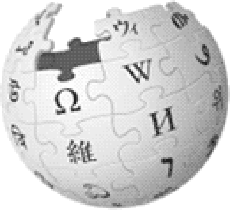 NO pixel edition is NO pixel art? - My brief information: 1.1 - 1.20: downsampling & ordered dithering (GIMP v2.8); 2.3 - 2.5: decoloring (custom and indexed palette tools); 3.16 - 3.17: decoloring (statistics or via IrfanView v4); 3.5 - 3.9: edge detections (custom or any blurring tool); Management of masks and layers: any modern raster editor, even scriptable or via shell commands (e.g. ImageMagick). Dpla-fr